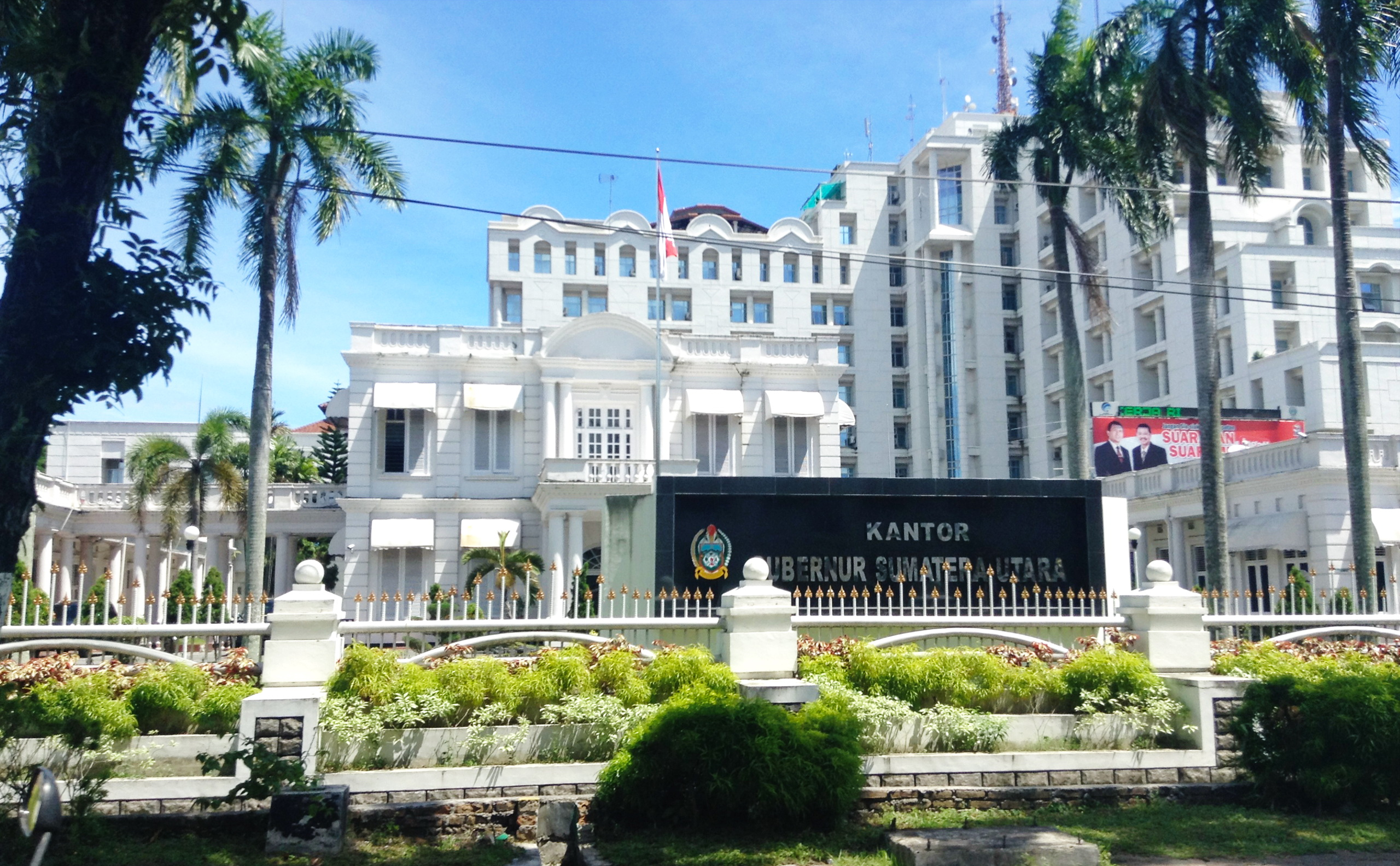 North Sumatra government office